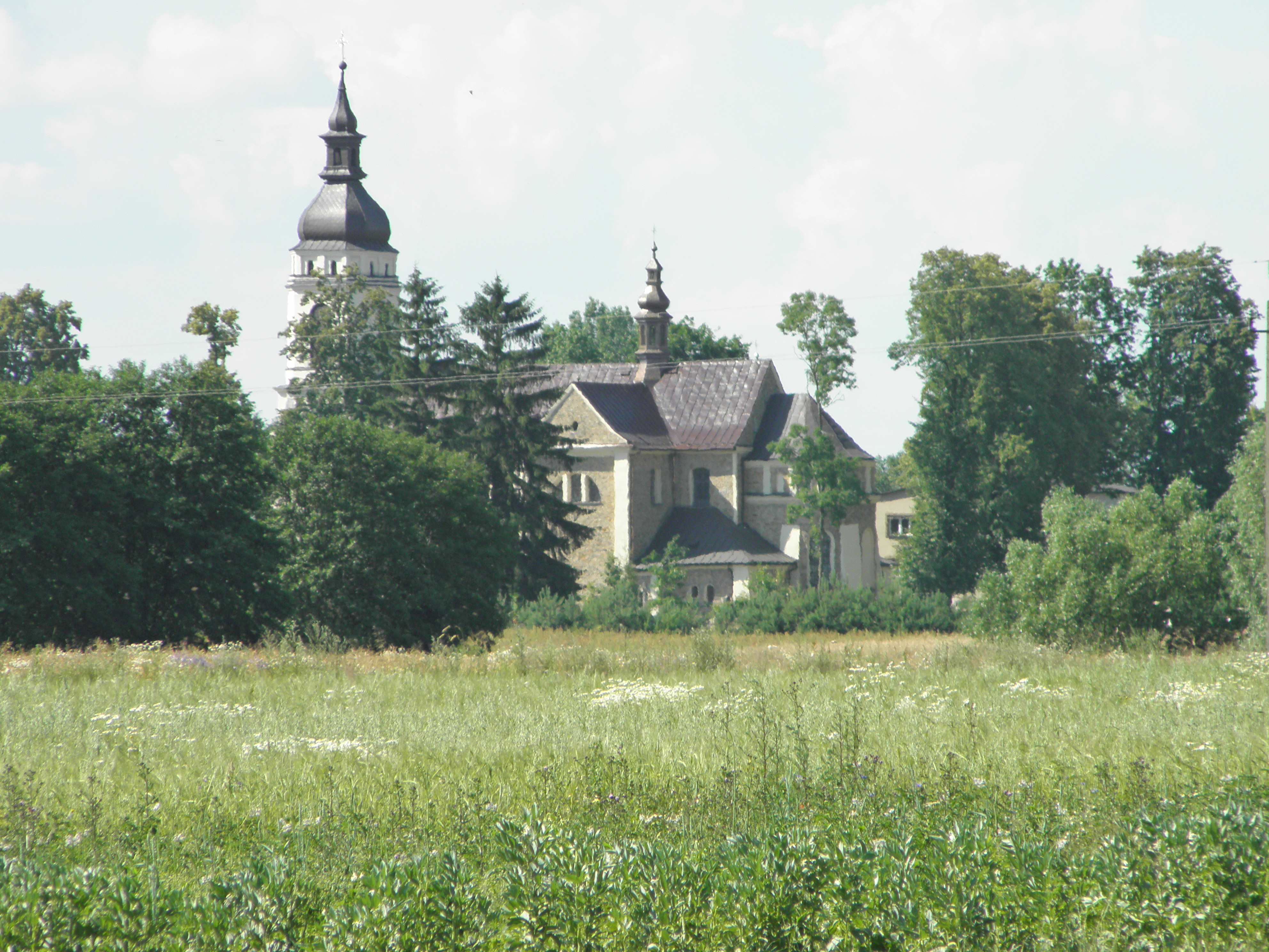 Sacred Heart parish church in Sady-Kolonia, Poland